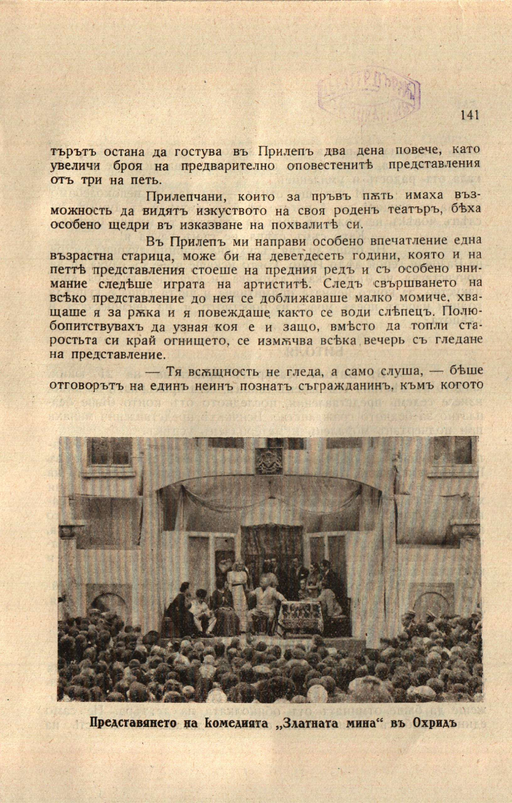 Skopje National Theatre